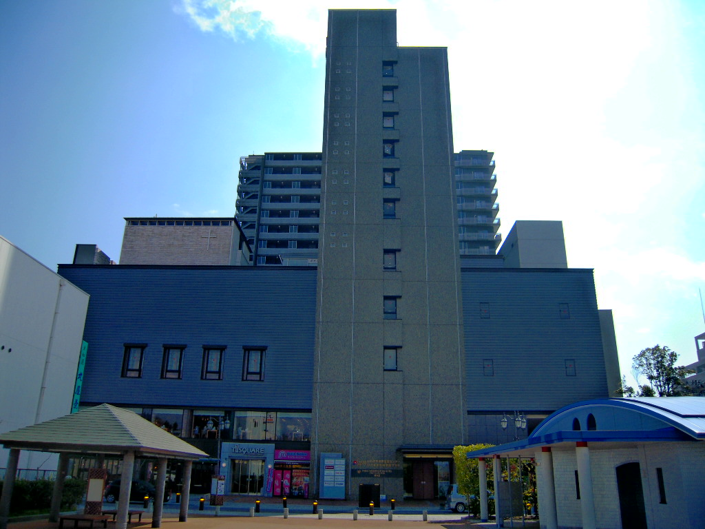 The Iwaki T1 Building in Iwaki City, Fukushima Prefecture, Japan